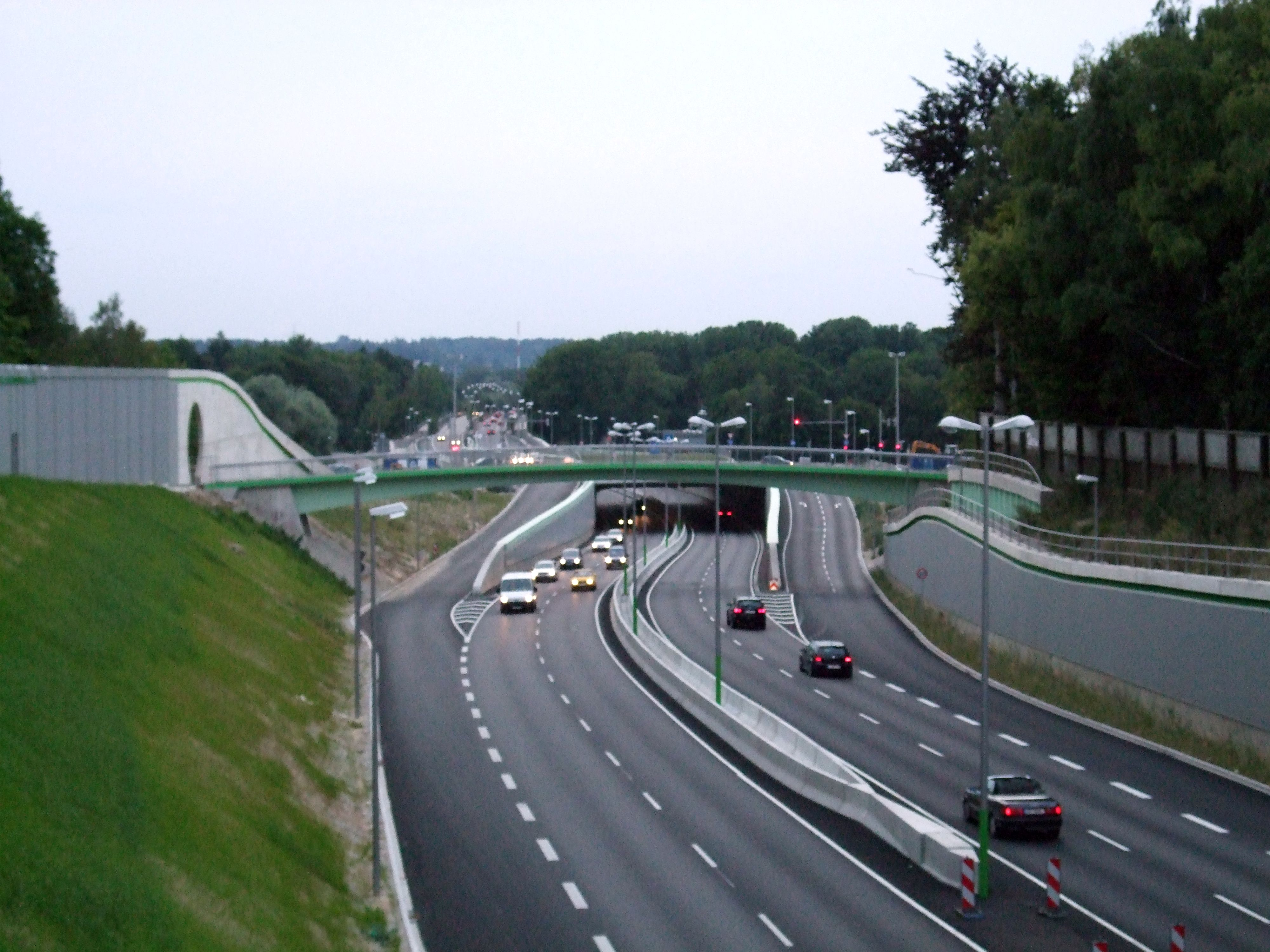 Augsburg – View from a bridge (Gögginger Straße) on the street Oberbürgermeister-Müller-Ring (B 17/B 300), west-bound.